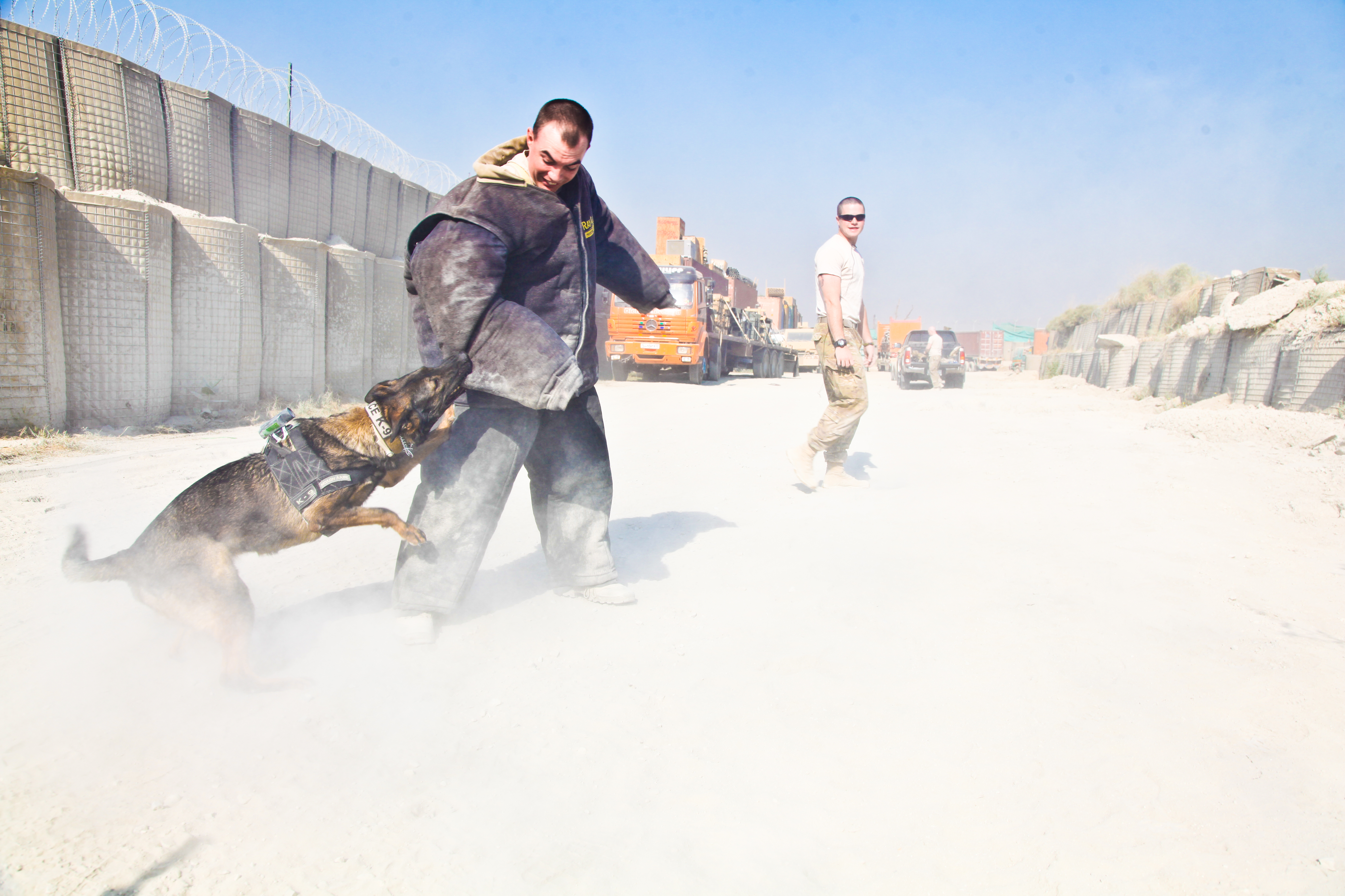 U.S. Army Spc. Jason Potts, assigned to Bravo Company, 4th Special Troops Battalion, 4th Infantry Brigade Combat Team, 4th Infantry Division, attempts to escape the grasp of a work dog during military police work dog bite training at Forward Operating Base Fenty, Nangarhar province, Afghanistan, Nov. 7, 2012. Military work dogs continually train to maintain proficiency within their role as military assets. (U.S. Army photo by Spc. Ryan Hallgarth/Released)